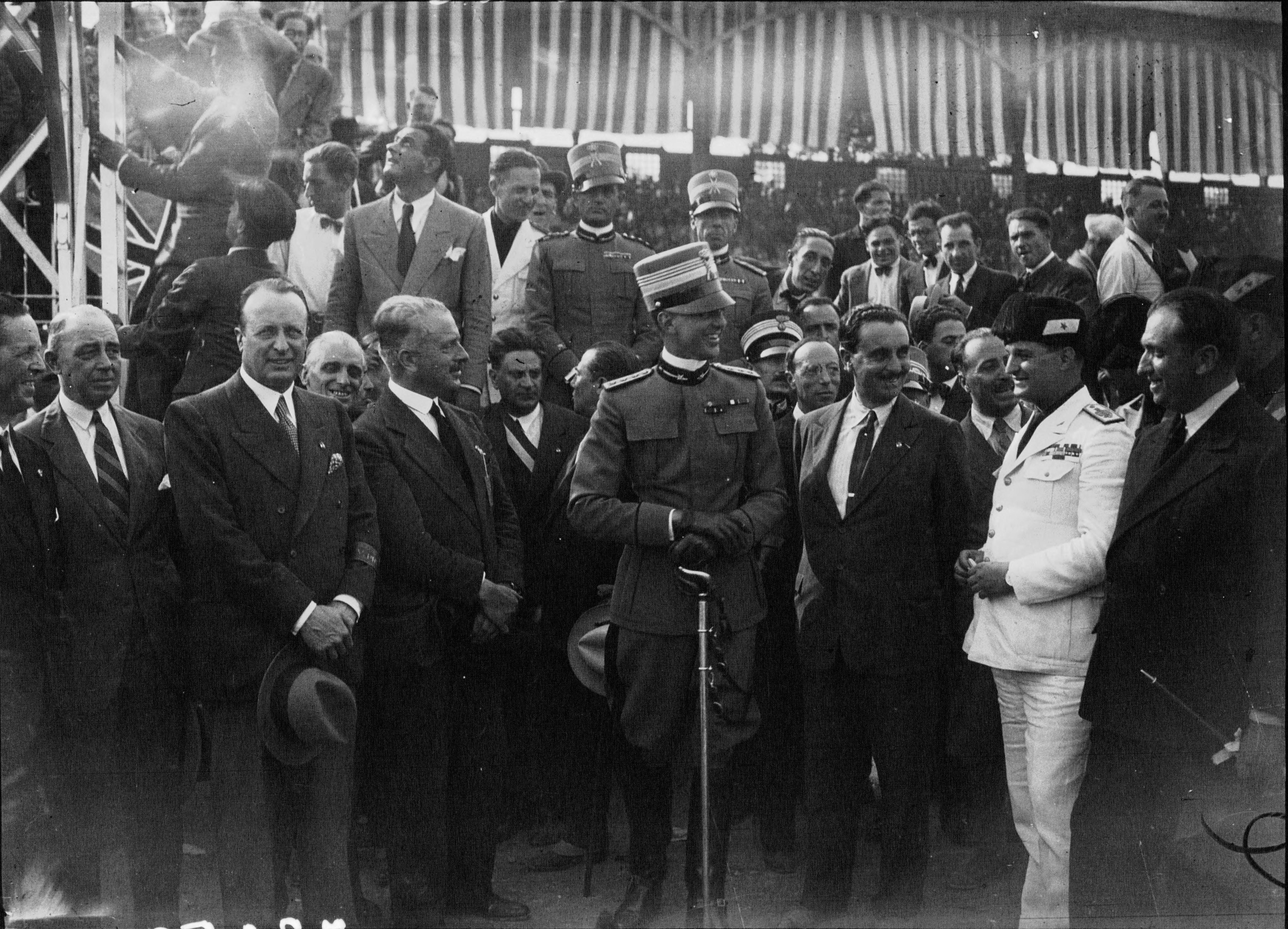 Prince of Piémont with Nuvolari and Florio at the 1930 Monza Grand Prix.